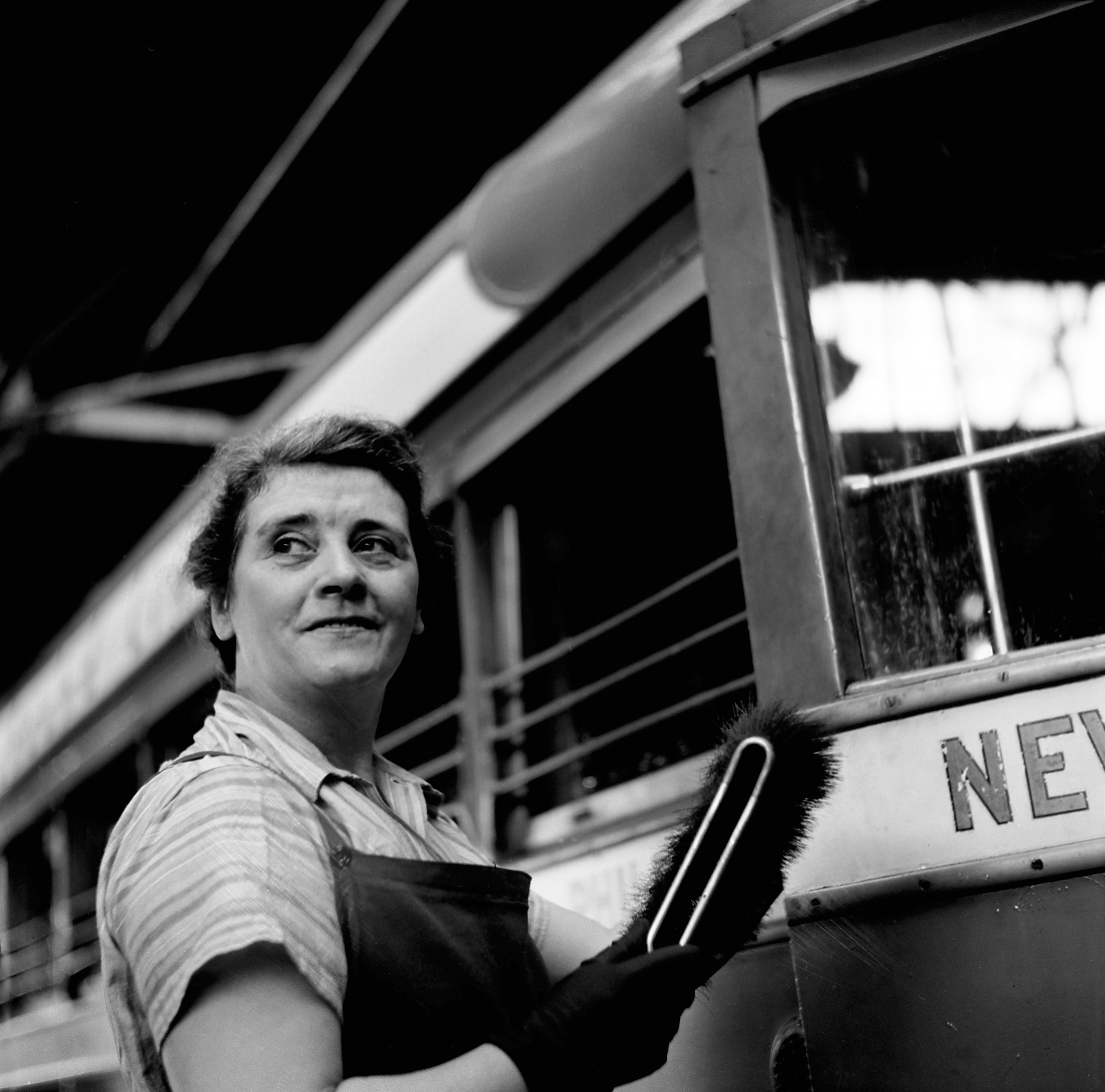 Photo of a woman cleaning a bus. Caption: "Pittsburgh, Pennsylvania. Woman cleaner at the Greyhound garage."